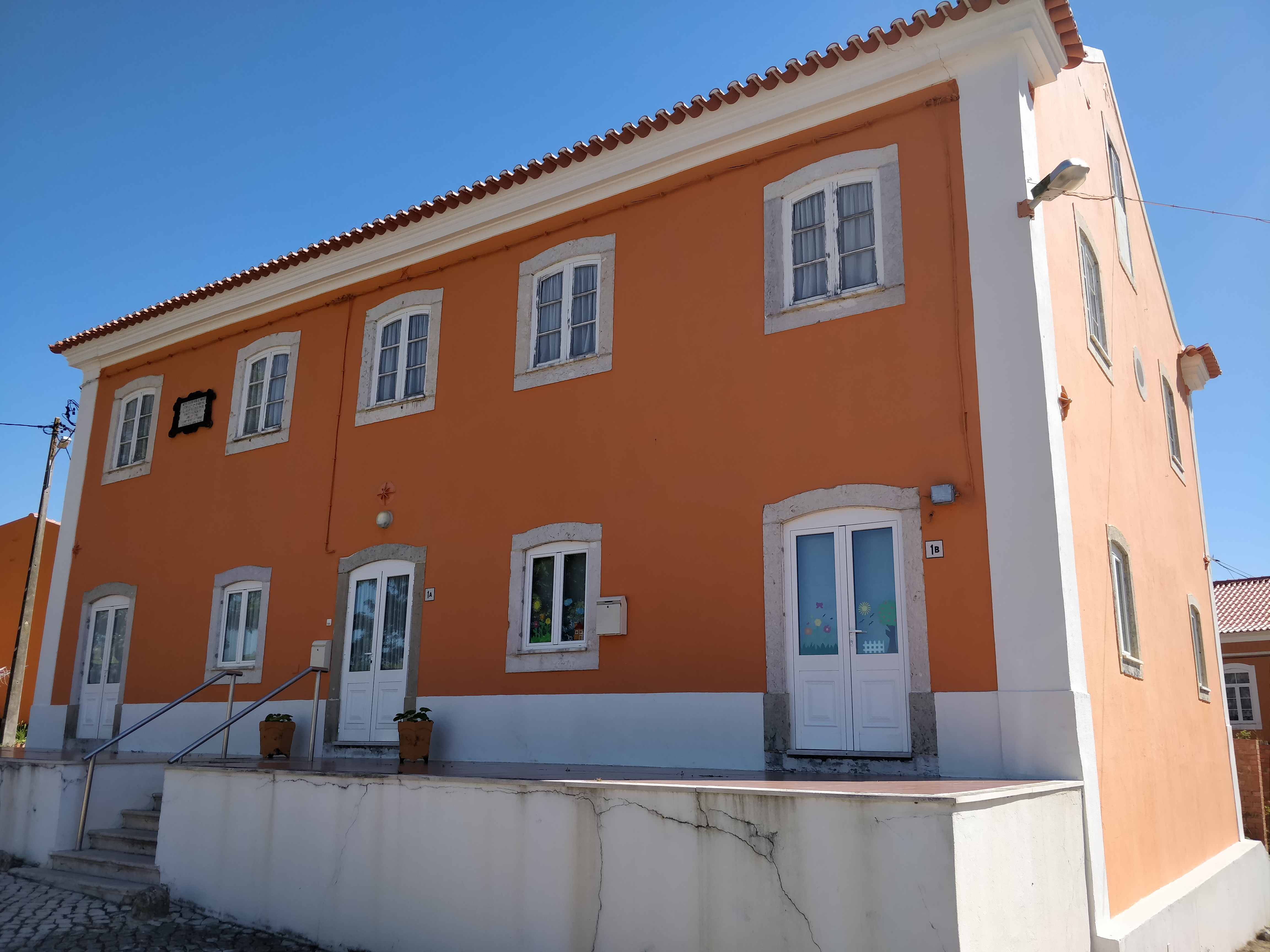 Duke of Wellington's Headquarters at Pero Negro, Portugal during the Peninsular War in 1810. He would ride daily from there to the defences of the Lines of Torres Vedras at Monte Agraço